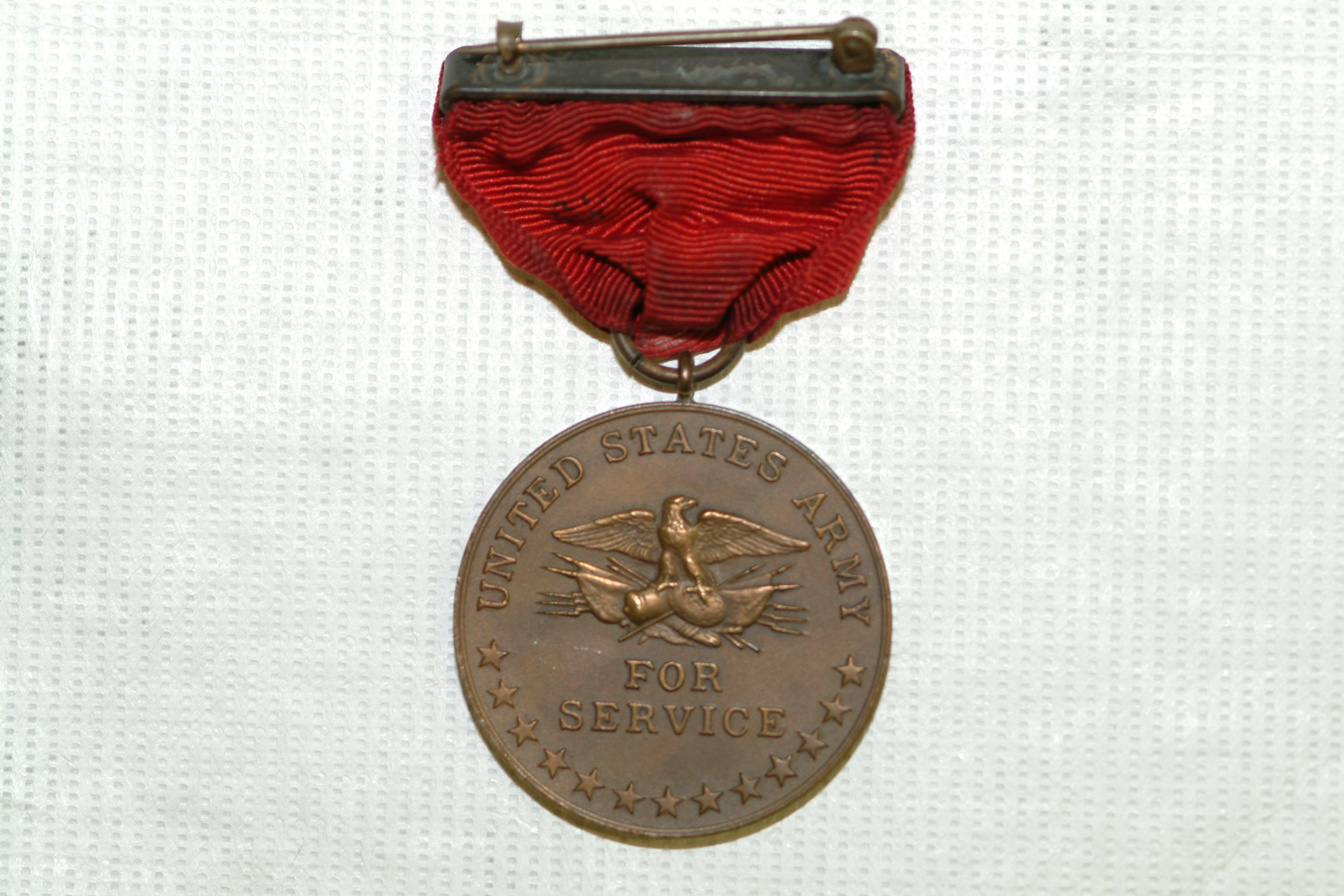 Indian Wars Service Medal, 1865-1890. Back. Army Heritage Museum Collection.